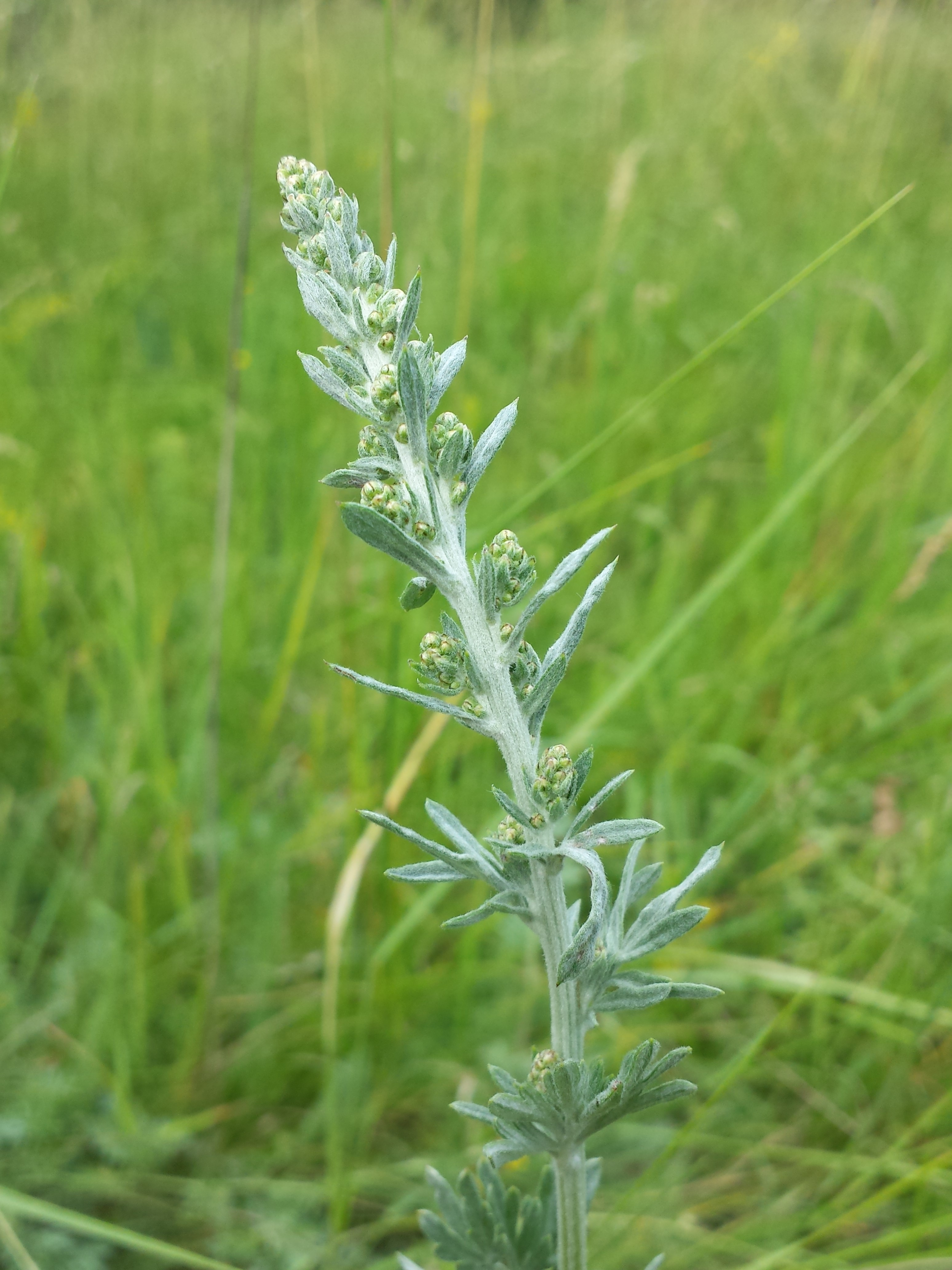 Inflorescence Taxonym: Artemisia pancicii ss Fischer et al. EfÖLS 2008 ISBN 978-3-85474-187-9 Location: Kalvarienberg in Neusiedl am See, district Neusiedl am See, Burgenland, Austria - ca. 160 m a.s.l. Habitat: dry grassland